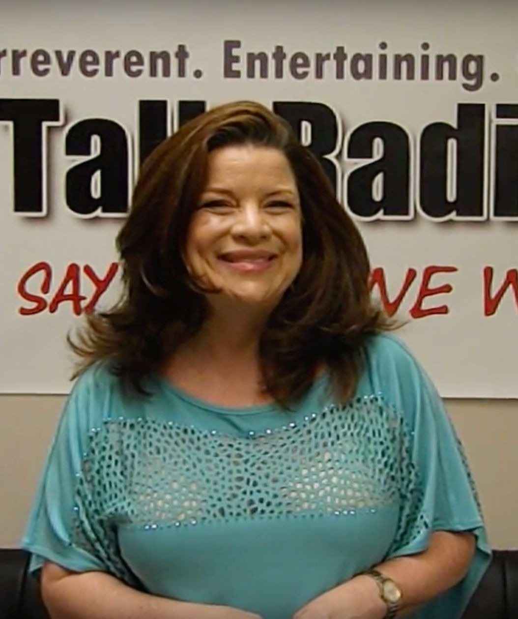 Mother Love - Renee Lawless